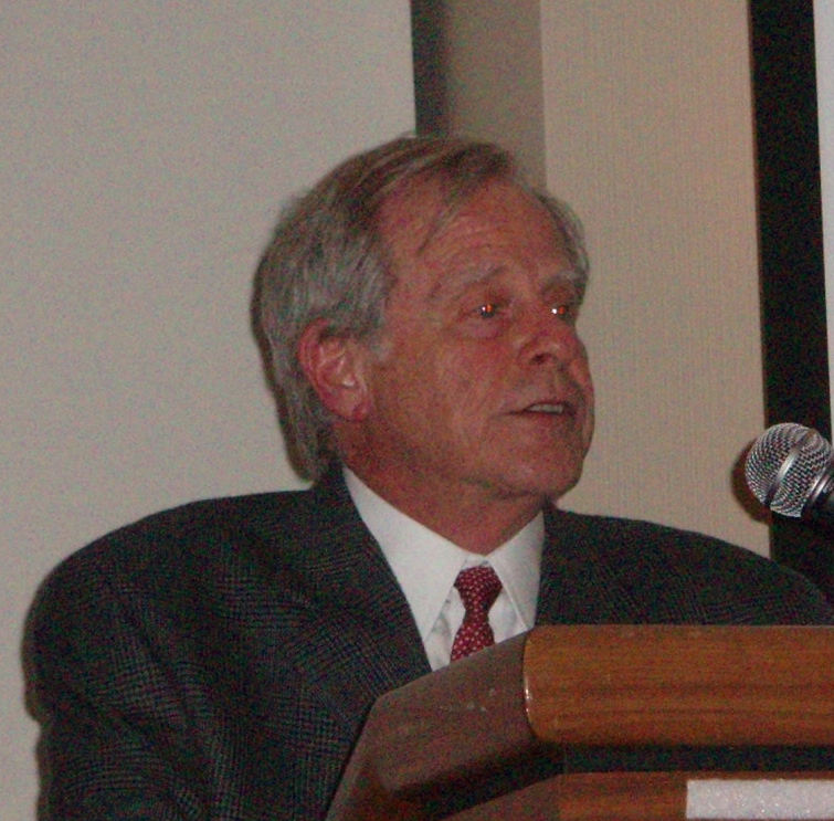 Prof Theodore Lowi (Cornell Univ) at the Cornell Club of Boston, May 2009